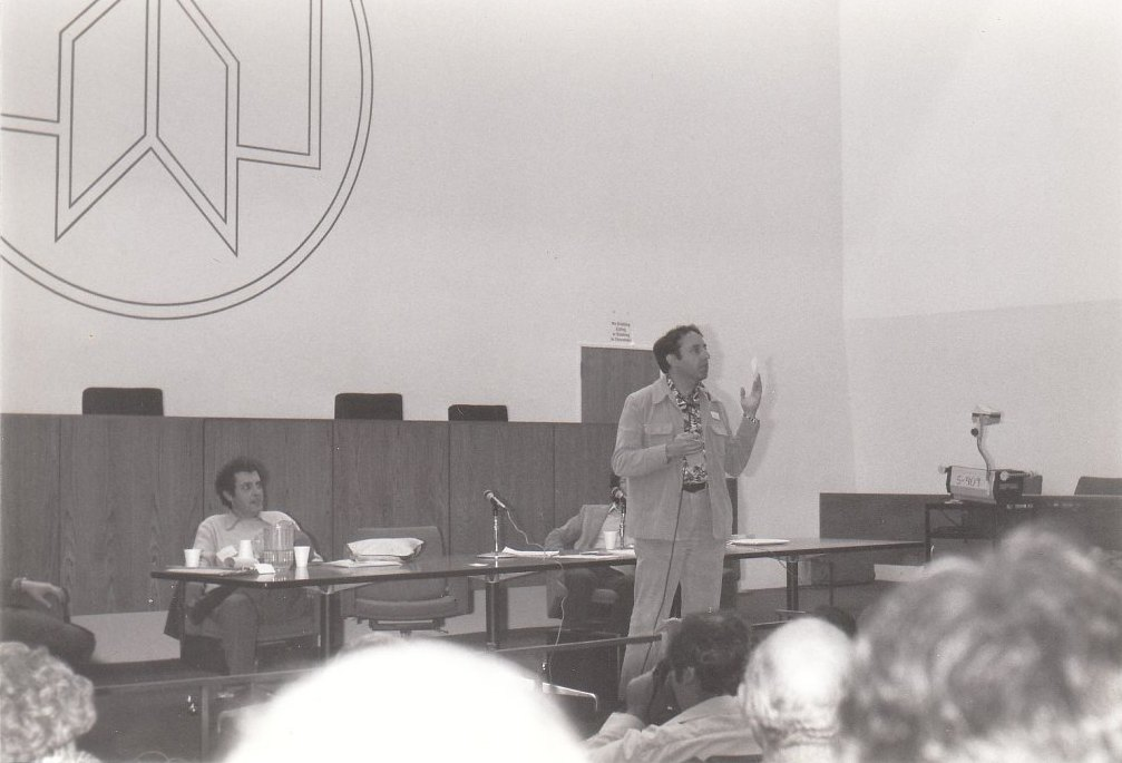 At the 1983 CSICOP Conference in Buffalo, NY